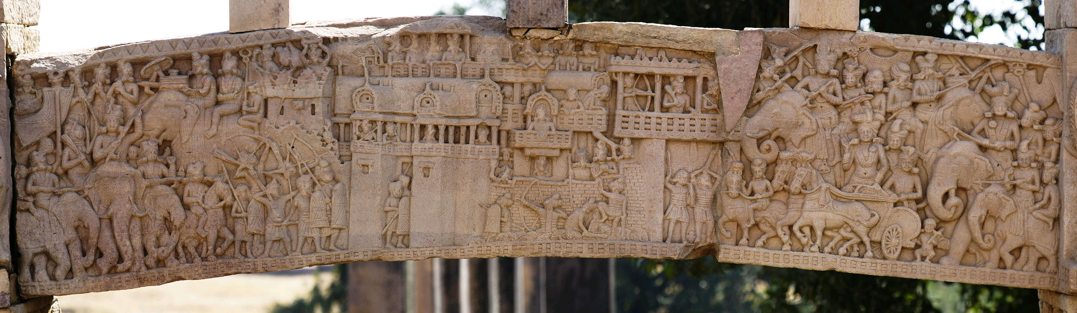 War of the Relics of the Buddha Sanchi Stupa 1Southern Gateway